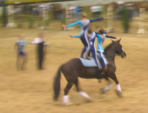 Equestrian vaulting 'C' Team freestyle routine performed by the Vaulters of the Northwest composite team during the 2005 AVA/USEF National Vaulting championships in Denver, CO. This exercise is called a "Triple Cross".